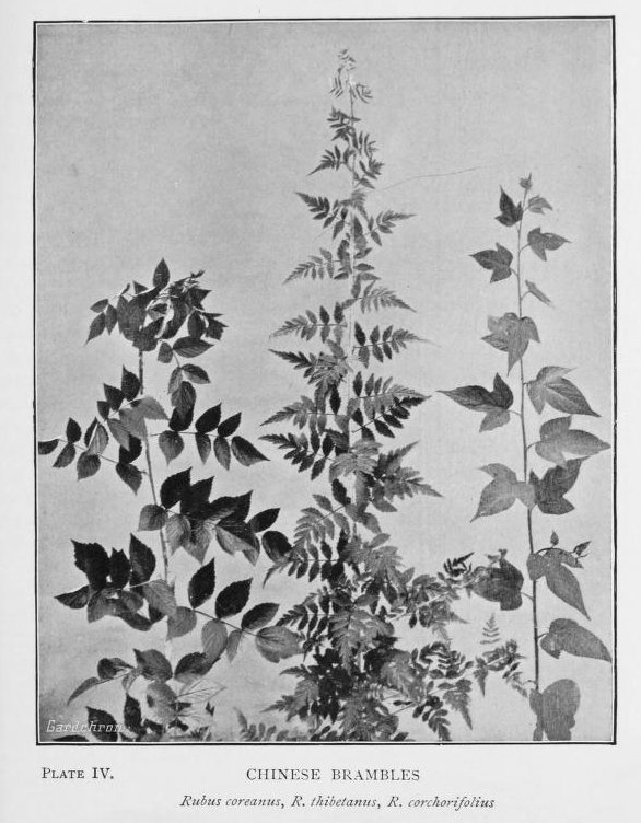 Author: Watson, William, 1858-1925 Subject: Climbing plants Publisher: London [etc.] : T.C. & E.C. Jack Language: English Call number: 1568297 Digitizing sponsor: University of British Columbia Library Book contributor: University of British Columbia Library Collection: ubclibrary; toronto Full catalog record: MARCXML Extracted from the book shown on . Converted to grayscale and cropped with GIMP.